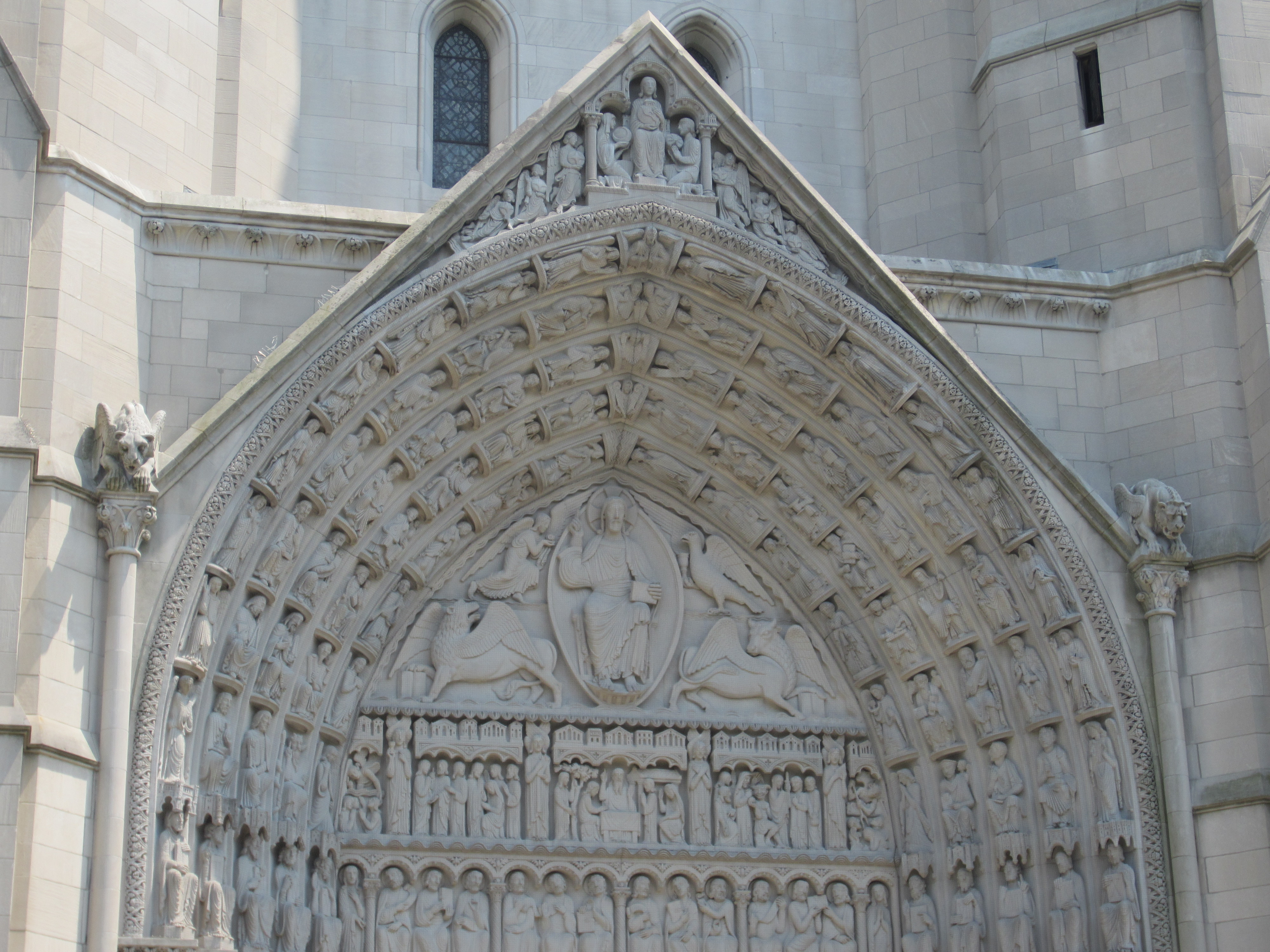 Riverside Church, New York City (June 2014)